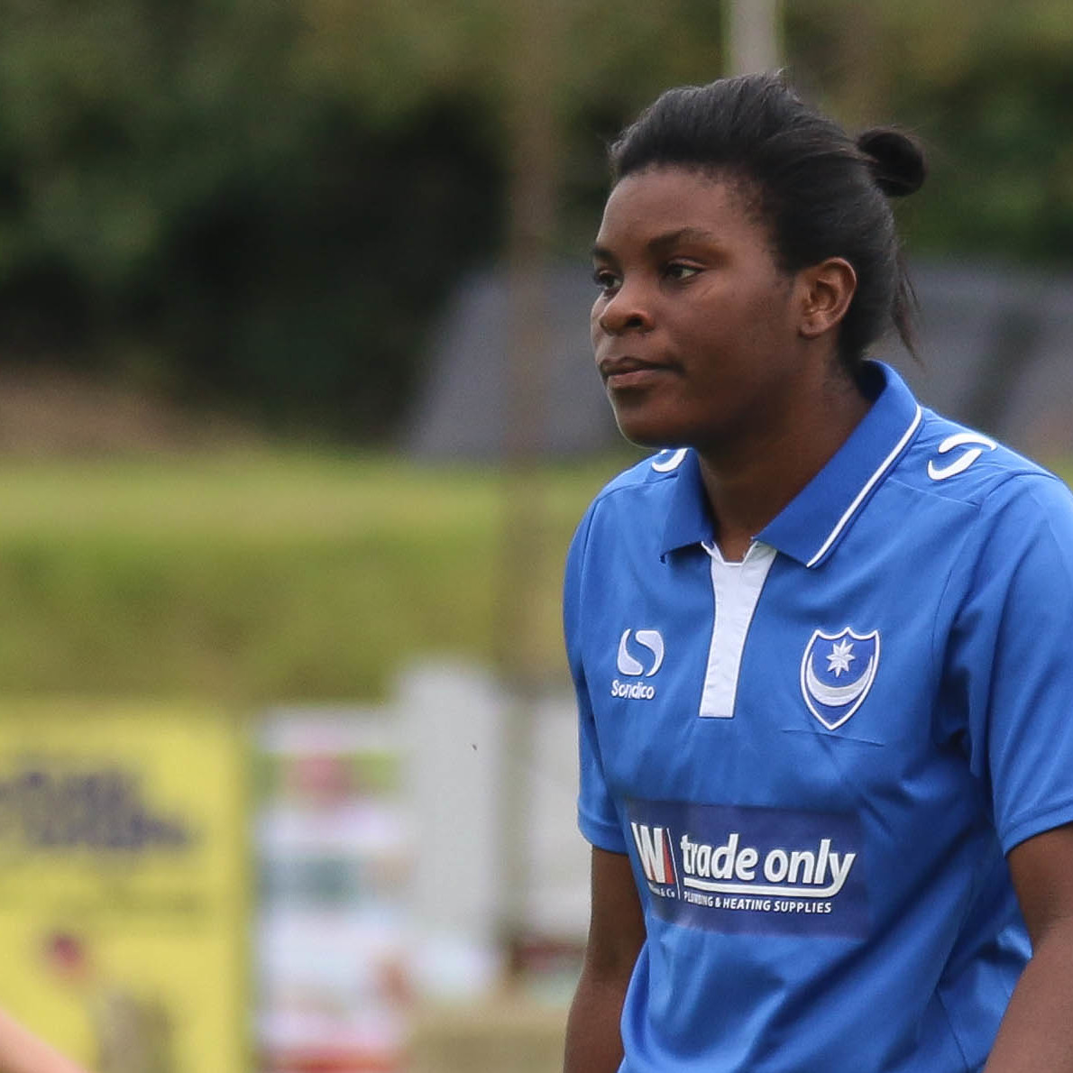 Portsmouth sharpshooter Ini Umatong